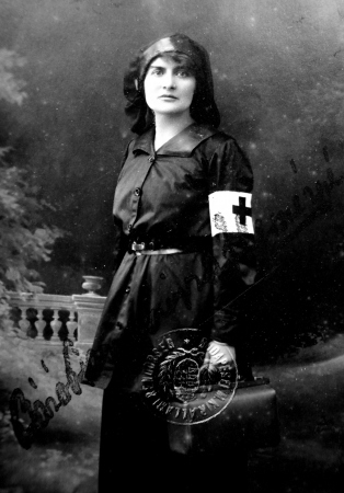 Karola Szilvássy in the 1st WW